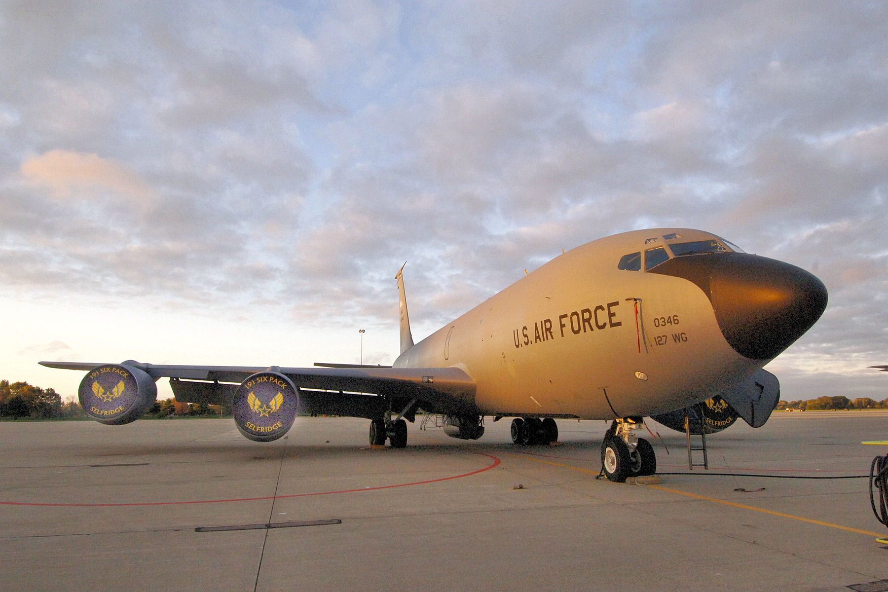 KC-135 of the Michigan ANG 171st Air Refueling Squadron